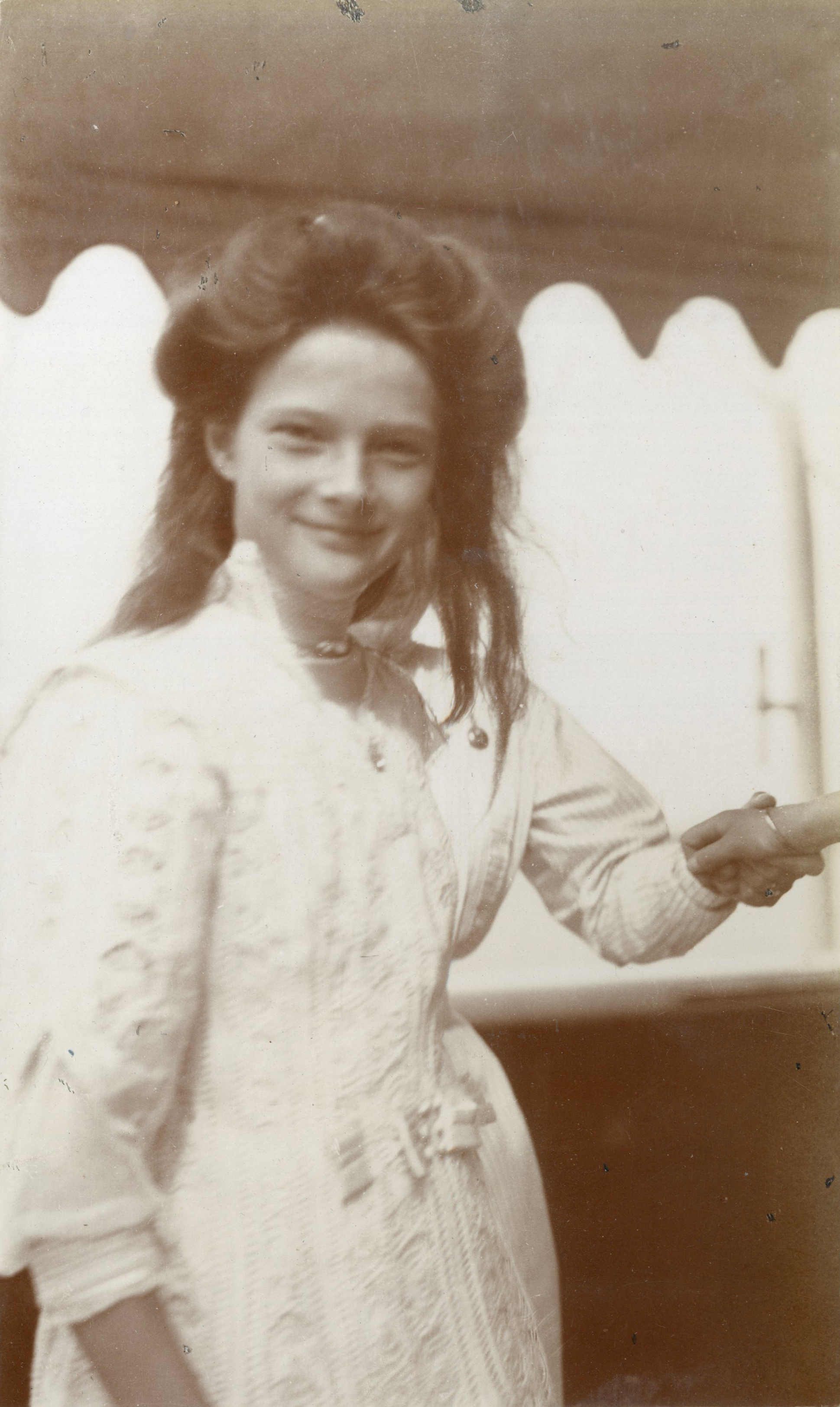 This photo of Grand Duchess Tatiana Nikolaevna of Russia in 1906 is from Because of its age, I think it's probably in the public domain